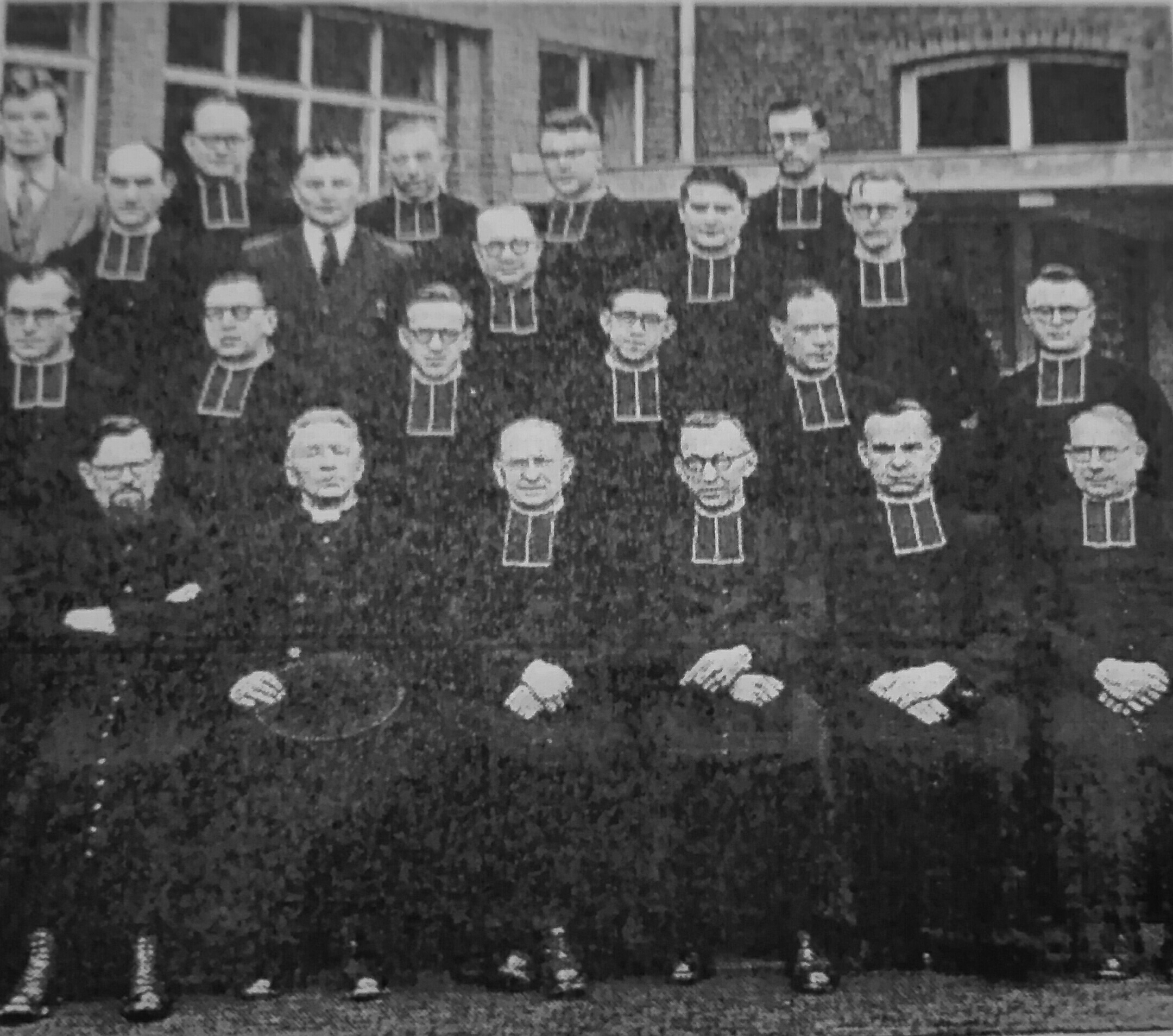 Old picture from the brethren and teachers of the Sint-Gabriëlcollege in Boechout (Belgium). The author is unknown and the picture is older than 70 years.